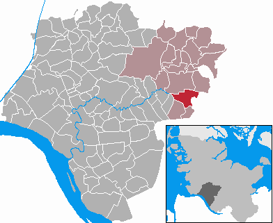 This map shows the area of the municipality Wrist in the Kreis (district) Steinburg, Schleswig-Holstein, Germany.